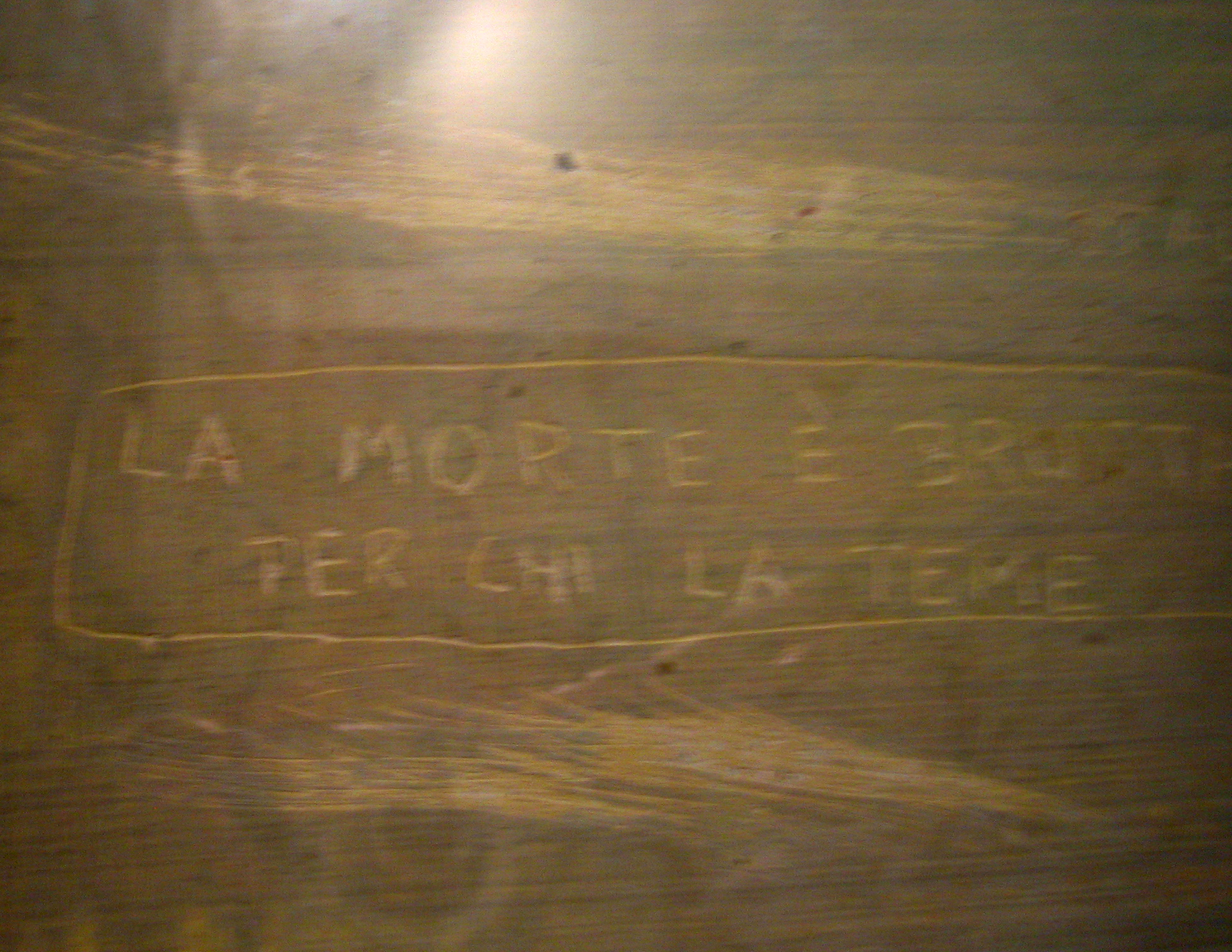 "Death is ugly for he who fears it". A defiant graffito in the Italian resistance-fighter prison cell in the via Tasso.